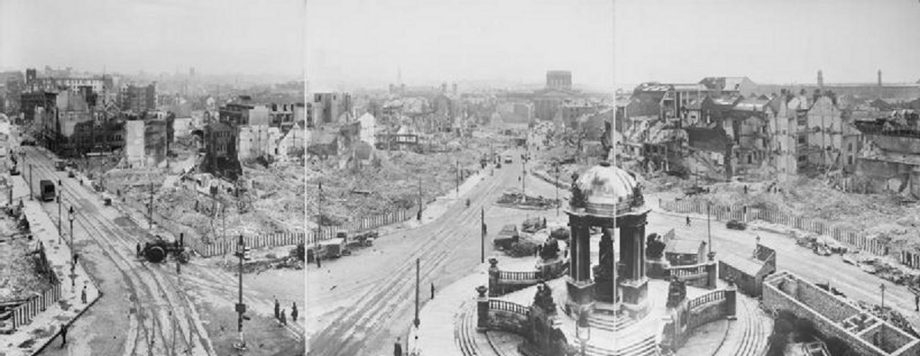 A panoramic view of bomb damage caused by the Liverpool Blitz.